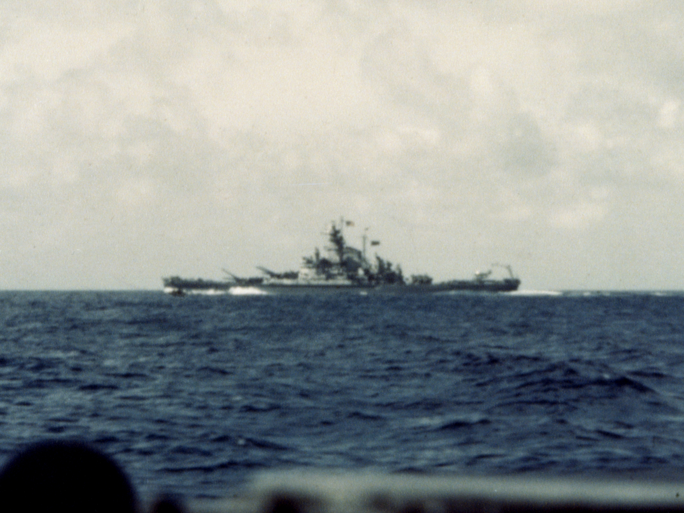 The U.S. Navy battleship USS Massachusetts (BB-59) maneuvering off Casablanca, Morocco, during the North Africa invasion, 8 November 1942. Note that Massachusetts is flying two very large national ensigns.